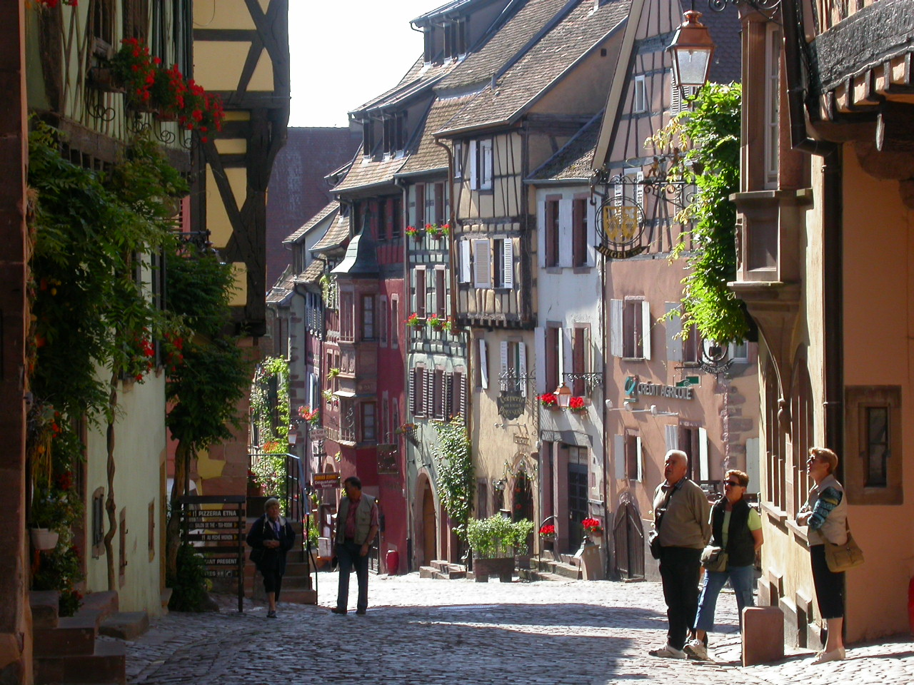 Main street of Riquewir, Alsace